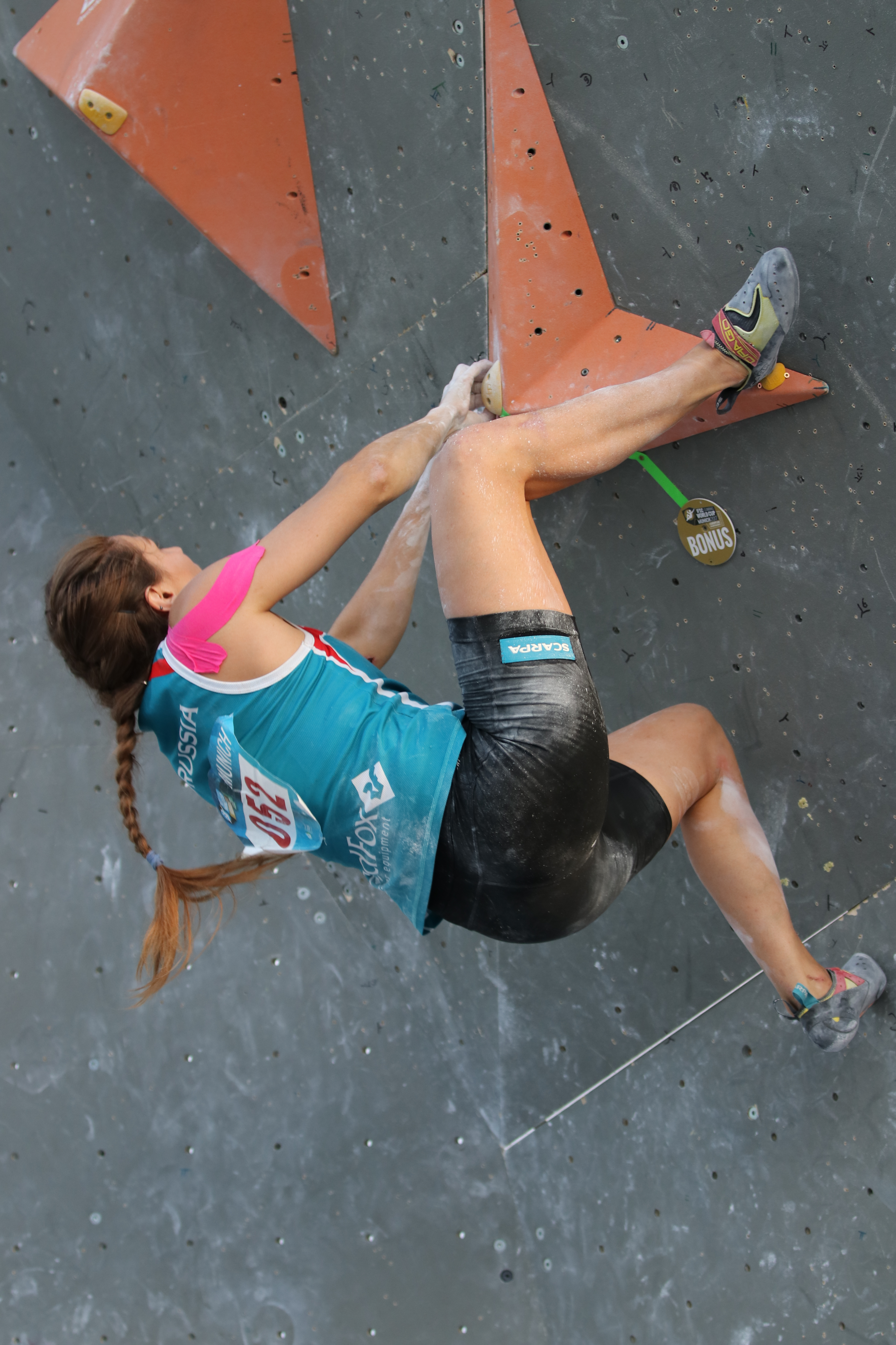 Anna Tsyganova, RUS, at the Boulder Worldcup 2017 in Munich, Germany